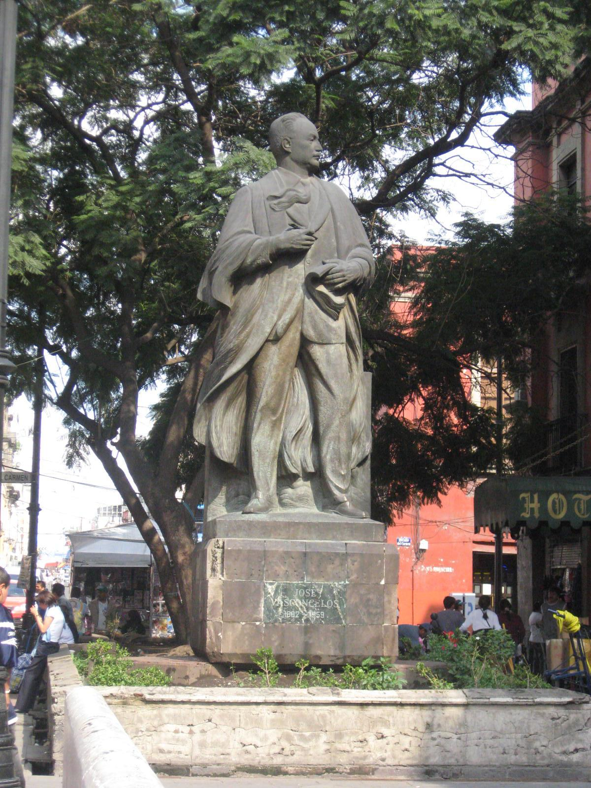 Statue of Jose Vasconcelos which stands on San Ildefonso Street next to the Antiguo Colegio de San Ildefonso in the Centro of Mexico City